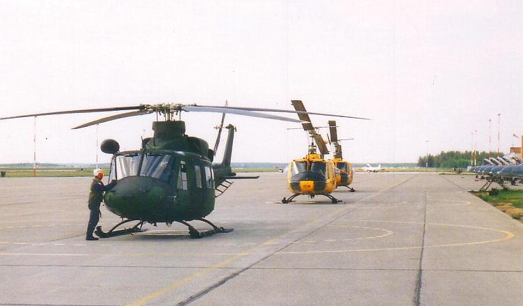 The first CH-146 Griffon (146414) delivered to 417 Squadron, and two CH-118 Hueys, at CFB Cold Lake in 1995.